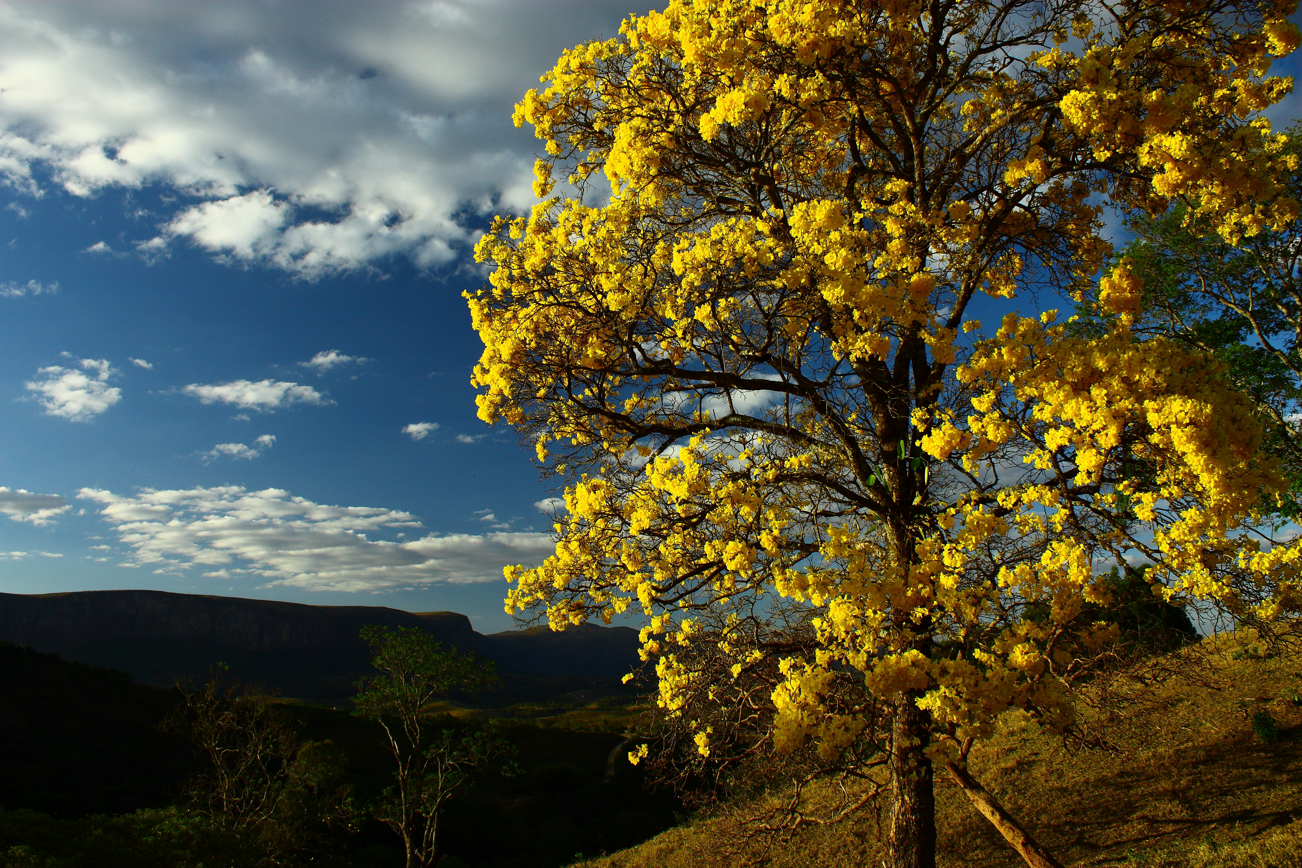 Handroanthus albus at Pousada "recanto da Canastra", Serra da Canastra, Minas Gerais, Brazil